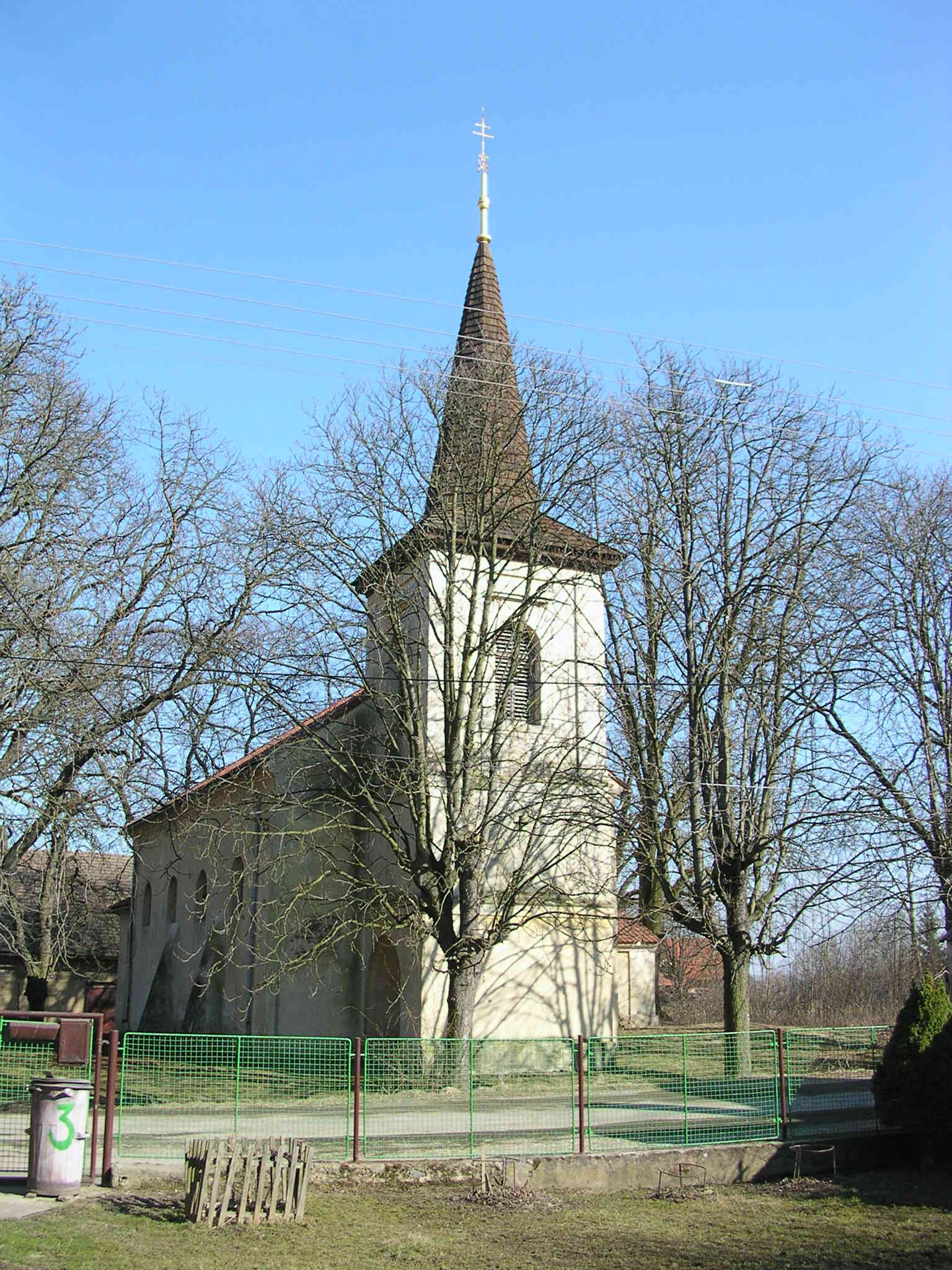 Church of the Holy Spirit in Trnová, Prague-West District, Czech Republic.